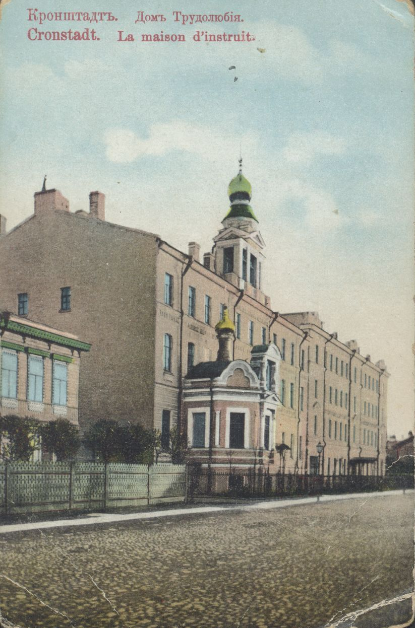 House of Diligence (Kronstadt)